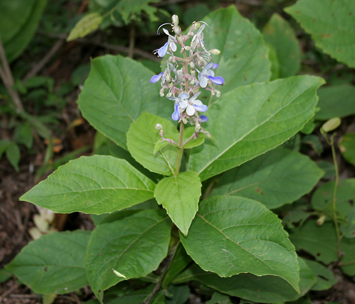 Rotheca serrata (syn. Clerodendrum serratum, Volkameria serrata )- Blbeetle killer, blue-flowered glory tree, blue fountain bush • Hindi: भारंगी bharangi • Konkani: भारंगी bharangi • Manipuri: মোইরাংগ খানম moirang khanam • Marathi: भारंग bharang, भारंगी bharangi • Nepalese: अनढिकि andikhi • Sanskrit: भार्गी bhaargi, भारङ्गी bharangi, ब्राह्मणयष्टिका brahmanayashtika, पद्म padma, फञ्जी phanji • Tamil: சிறுதேக்கு ciru-tekku - in Narsapur, Medak district, Andhra Pradesh, India.